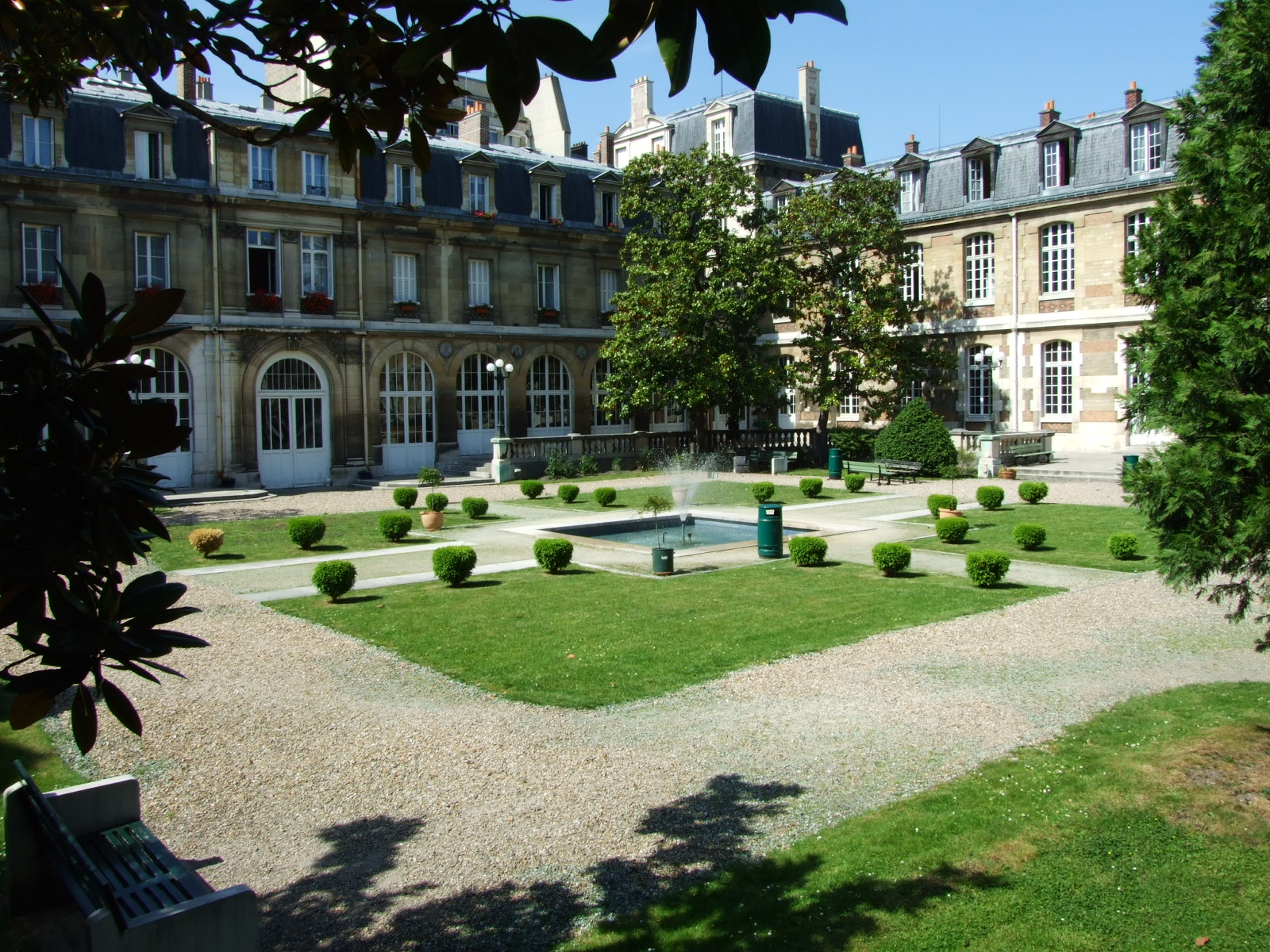 cour d'honneur du lycée janson de sailly